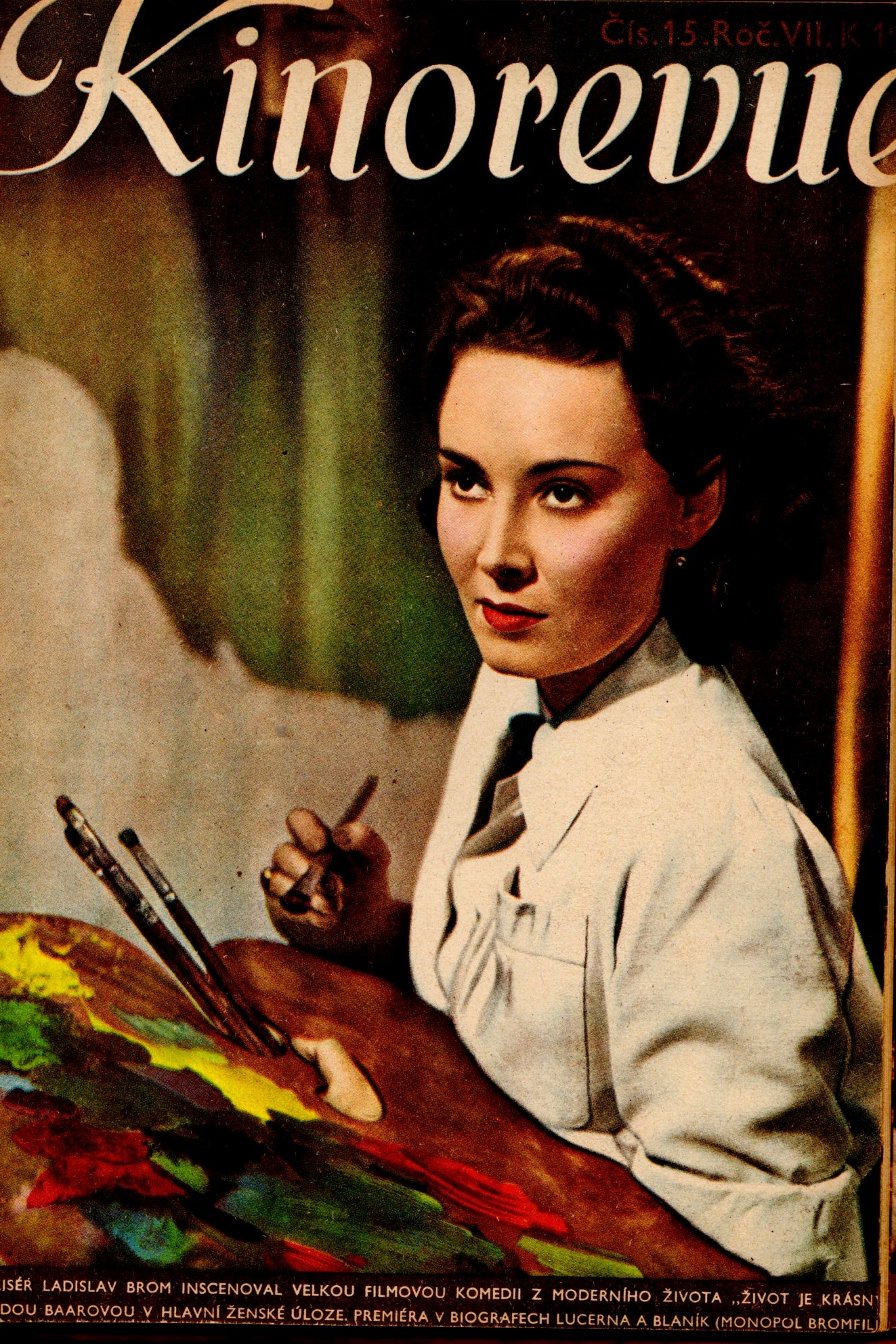 Lída Baarová, Czech movie actress, in Kinorevue (Czech) 1940